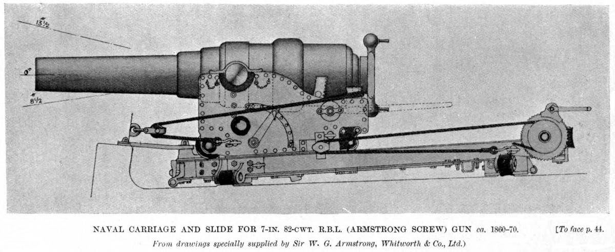 Diagram showing British RBL 7 inch Armstrong gun mounted on naval sliding carriage.